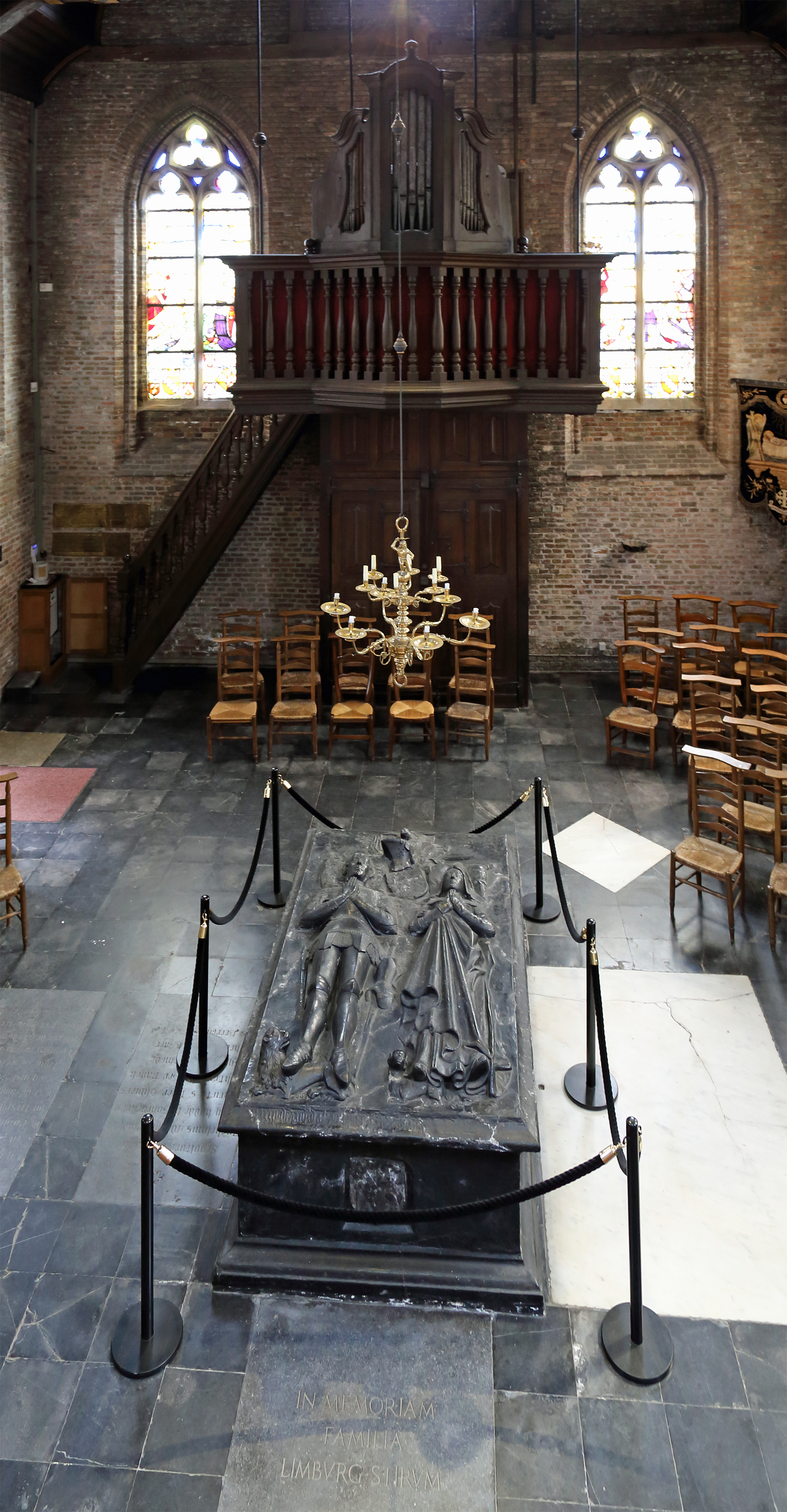 Bruges (Belgium): interior of Jerusalem church